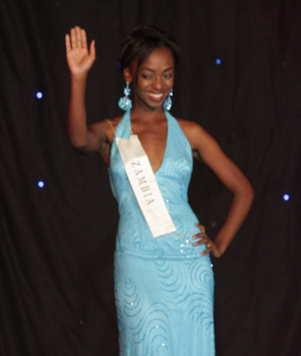 Miss Zambia 2008 Winfriday Mofu in Miss World 08